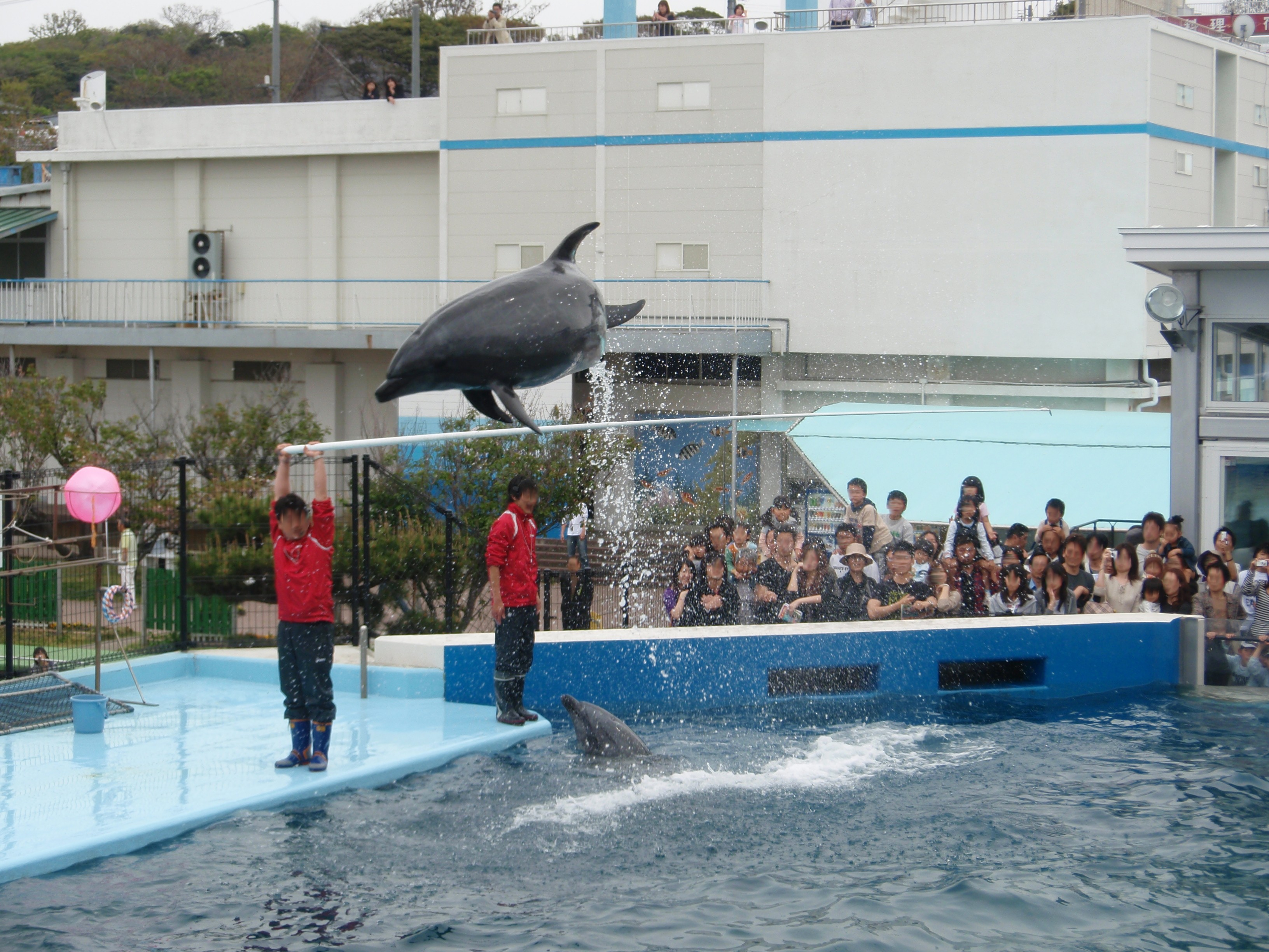 a junping Bottlenose Dolphin in Echizen Matsushima Aquarium, Japan